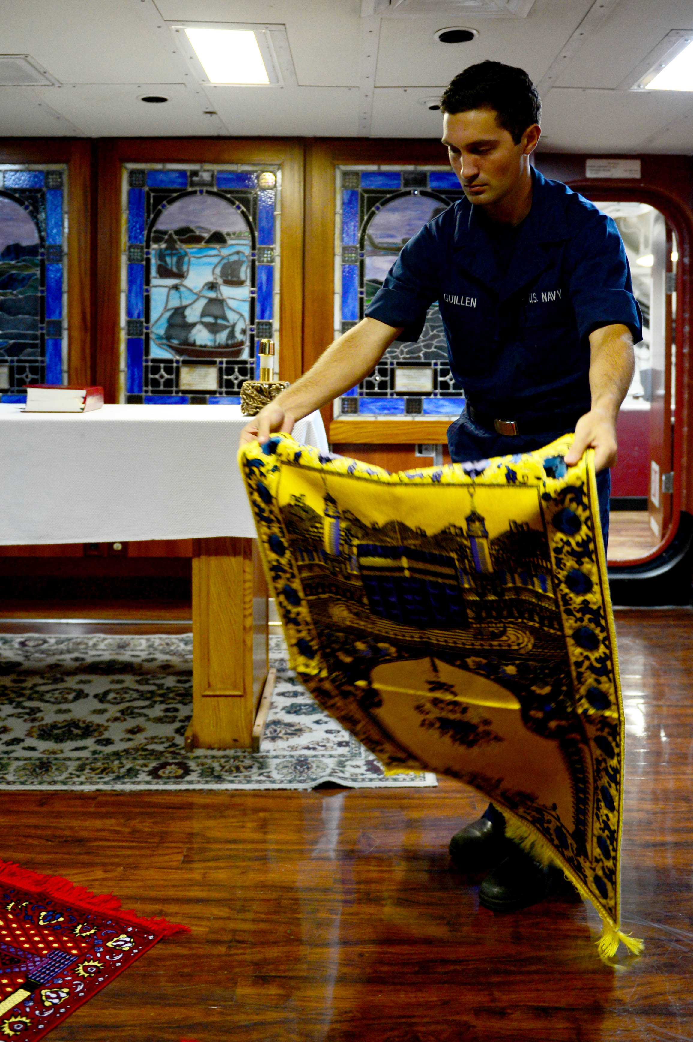 U.S. Navy Personnel Specialist Seaman Brandon Guillen lays out Islamic prayer rugs in the chapel of the aircraft carrier USS Ronald Reagan (CVN 76) in the Pacific Ocean Nov. 5, 2013. The Ronald Reagan and the embarked Carrier Air Wing (CVW) 2 were underway conducting carrier qualifications.